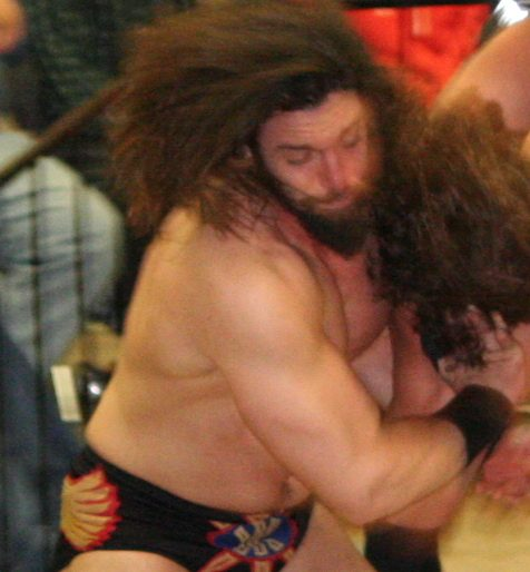 Match 10: IWC (International Wrestling Cartel) Heavyweight Champion John McChesney defends the title against Logan Shulo.